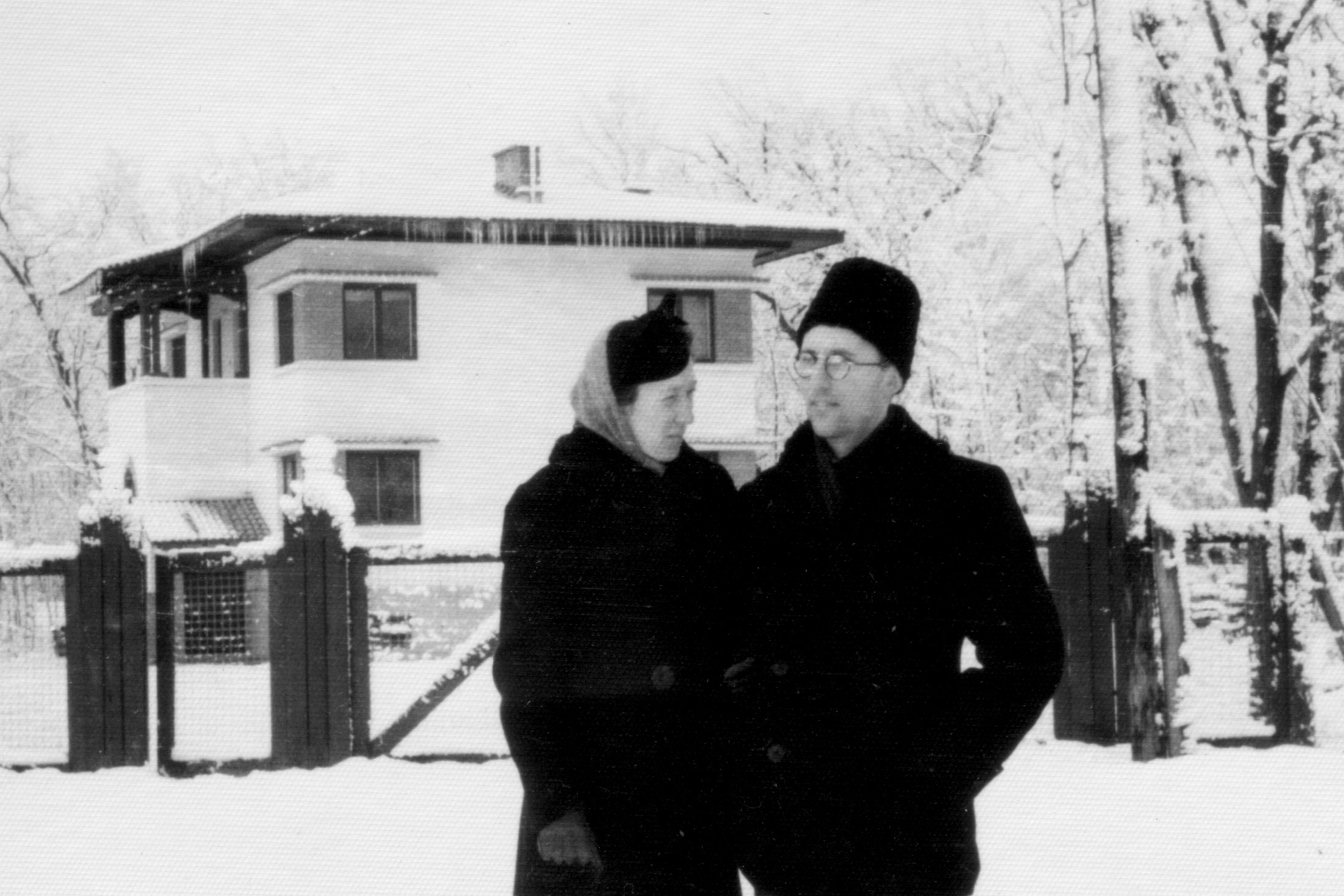 Surlari Geomagnetic Observatory, Liviu Constantinescu and wife Sofia at the Observatory (1945).